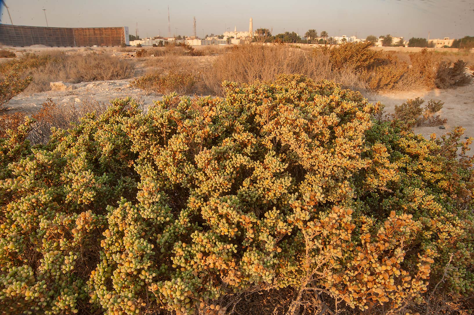 Large bush of Tetraena qatarense in a salty waste in the West Bay area of Doha, Qatar.